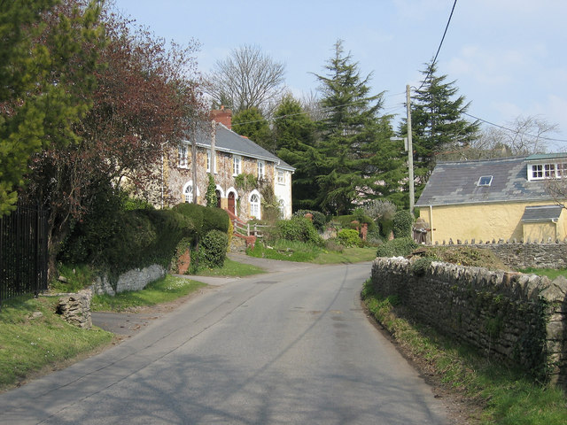 The Westra, Dinas Powis